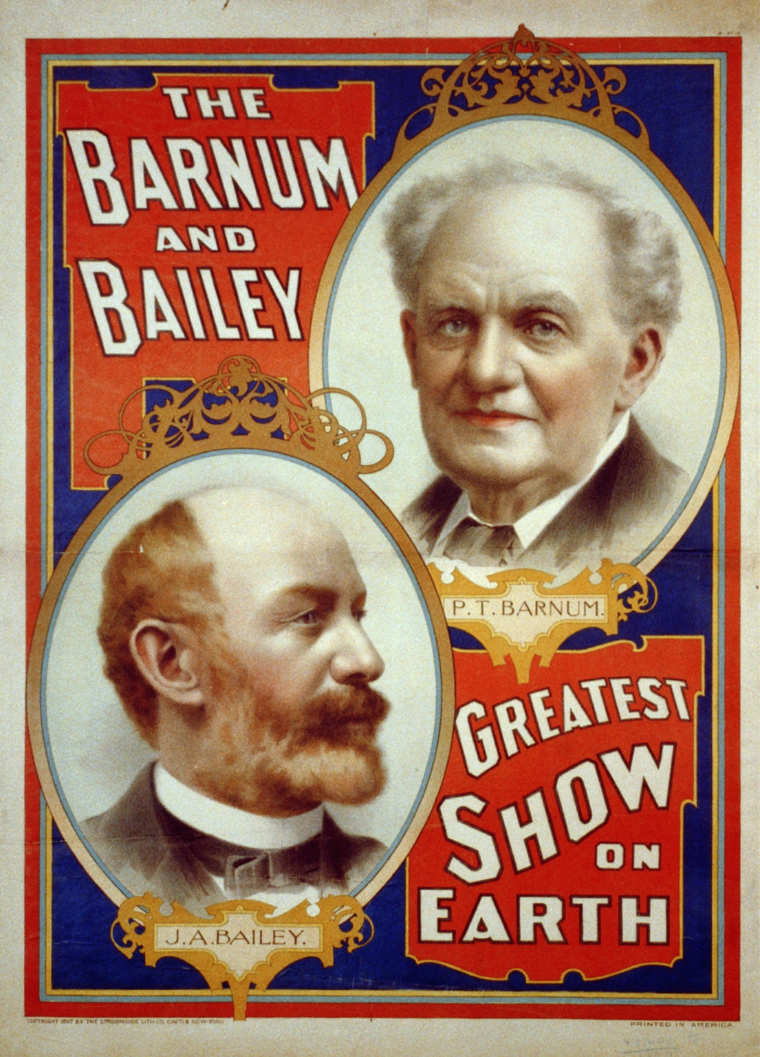 Barnum and Bailey poster.